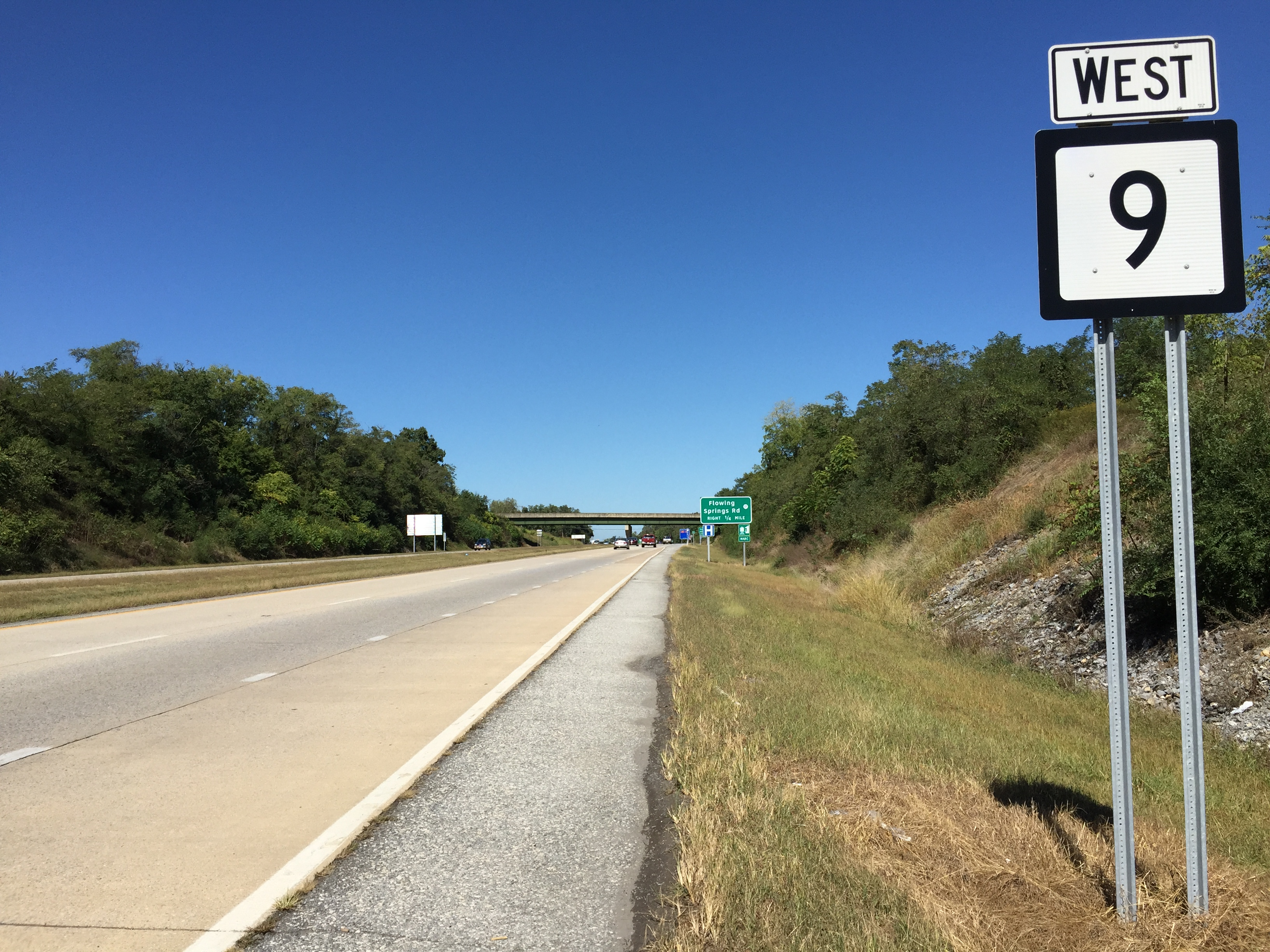 View west along West Virginia State Route 9 between U.S. Route 340 and 5th Avenue in Ranson, Jefferson County, West Virginia